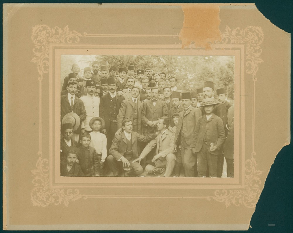 First of May in Beshchinar in Tessaloniki